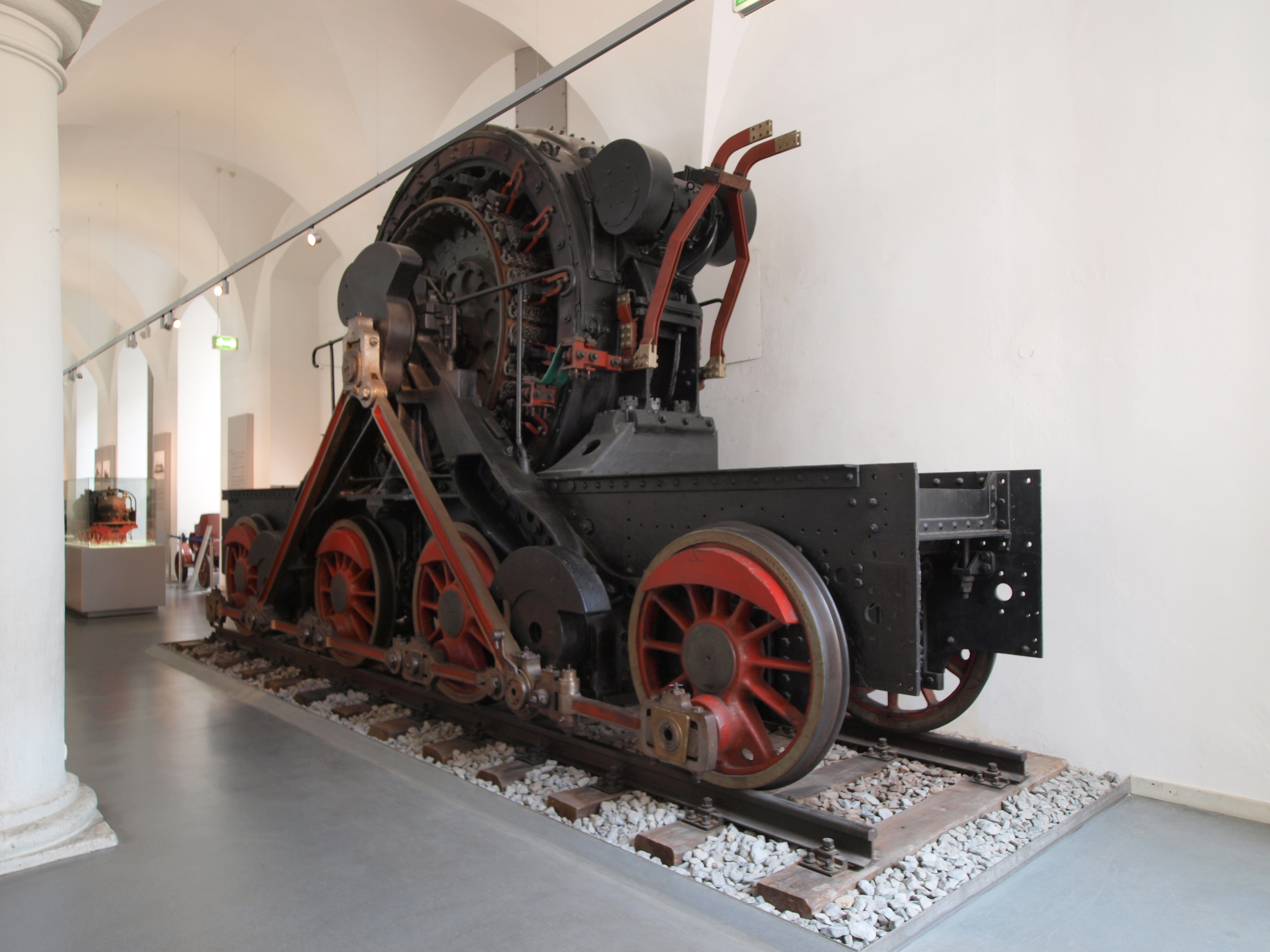 1926 Linke-Hofmann-Werke AG, E 50 42 ex pr EP242 Breslau.